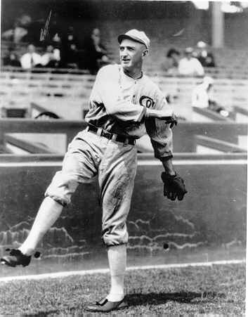 Shoeless Joe Jackson throwing pre-1923 photo as Jackson was banned from baseball in 1920